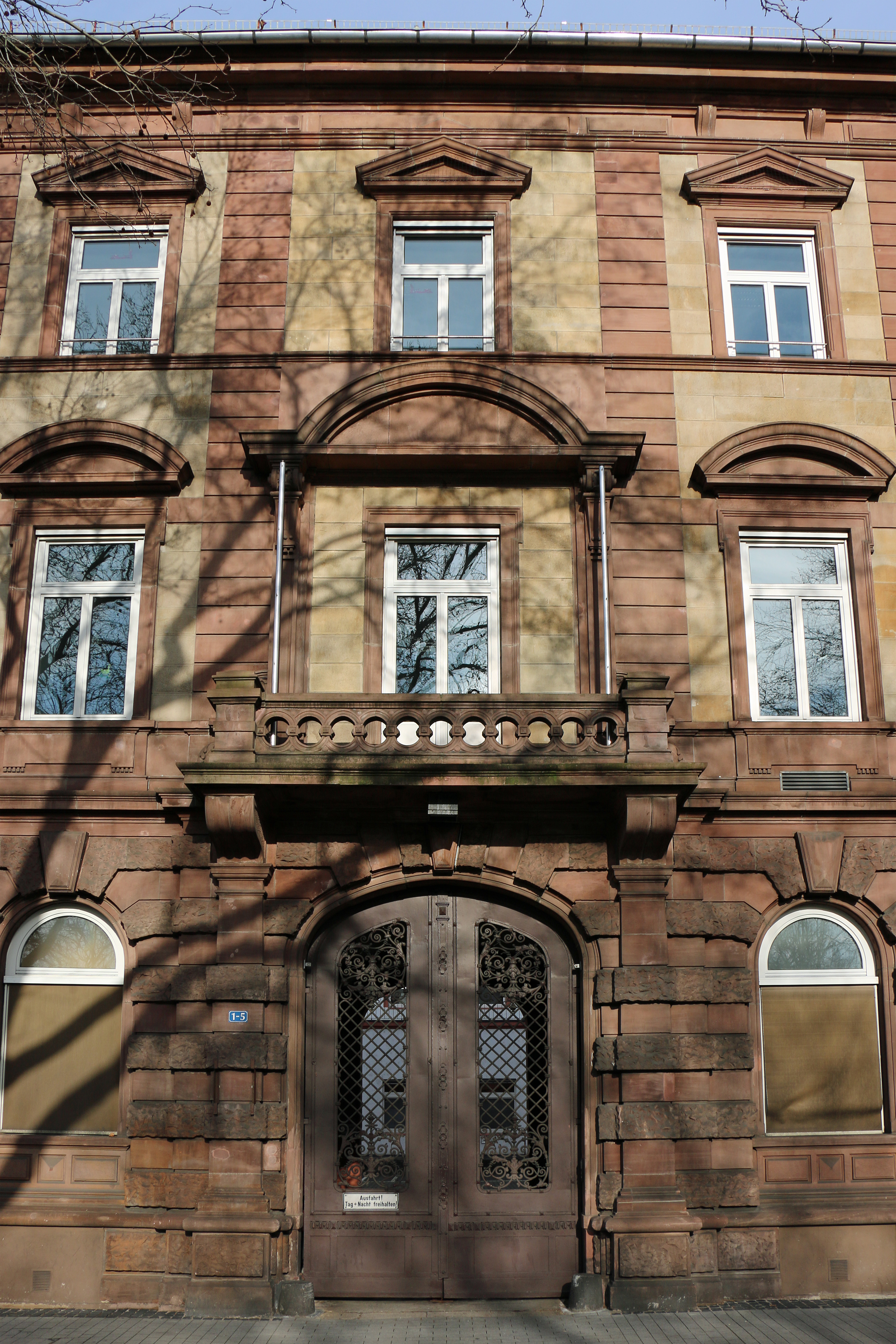 Old post office in Koblenz